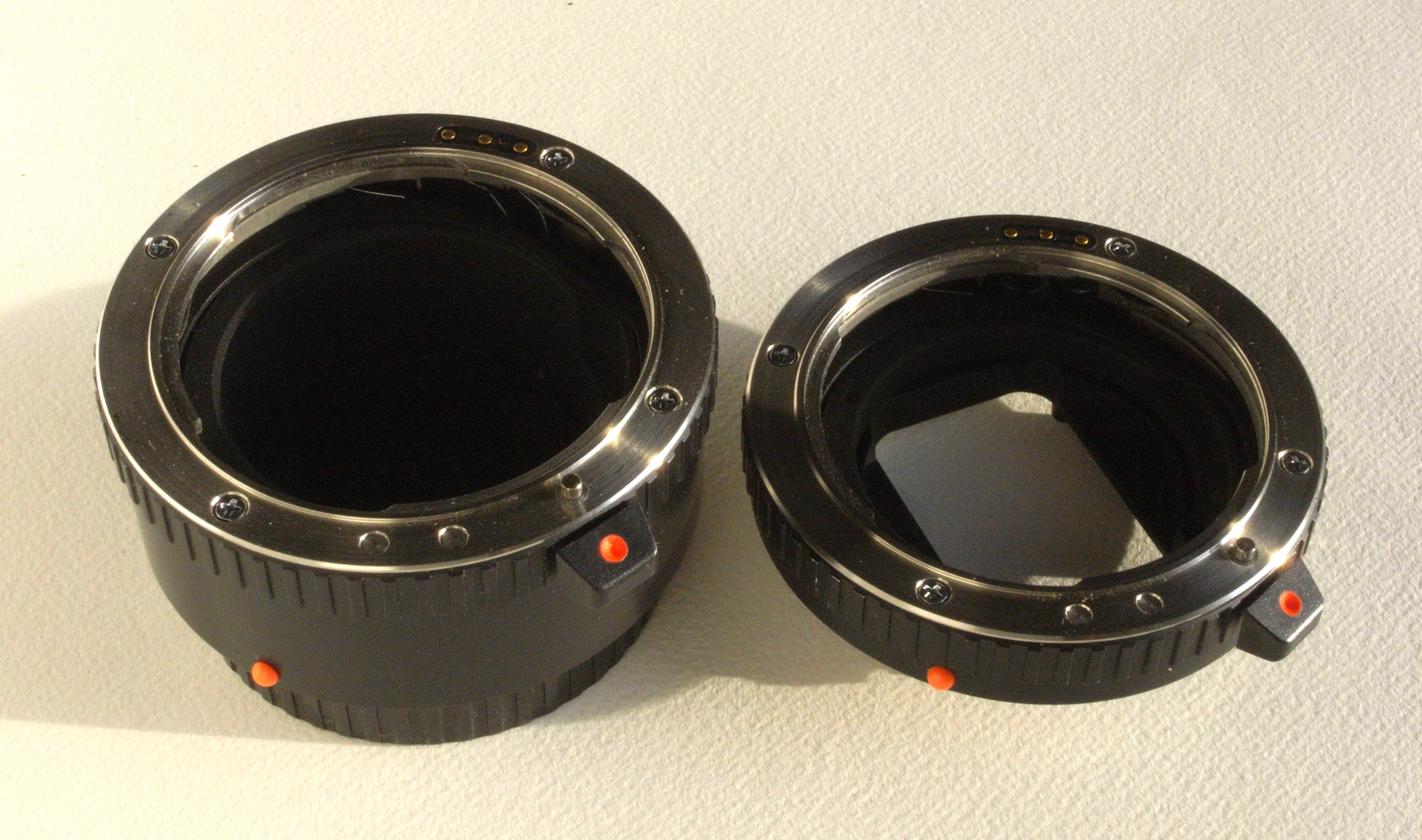 Prakticar B, extension tube